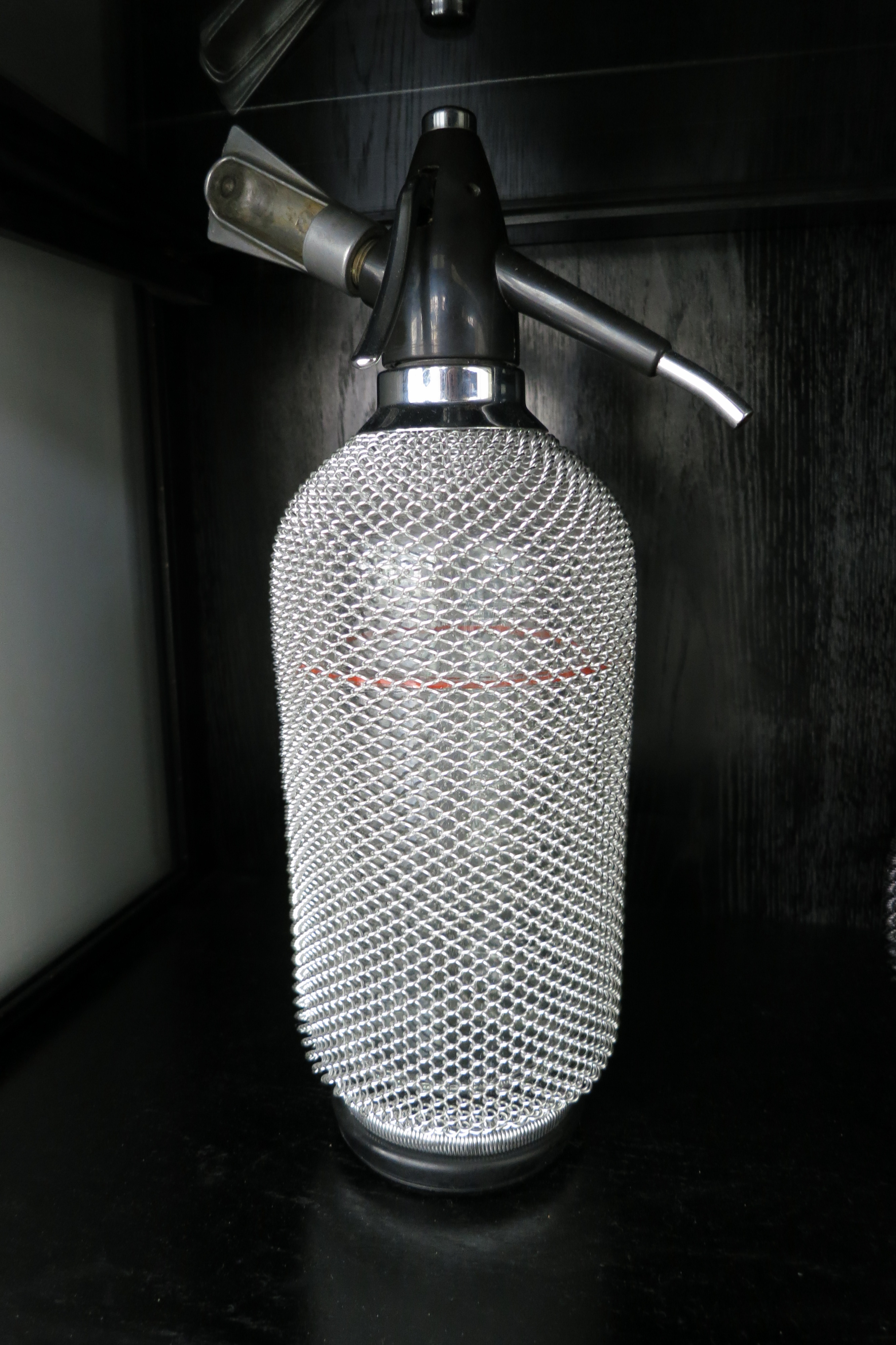 Soda Syphon bottle in Veletržní palác, Prague.